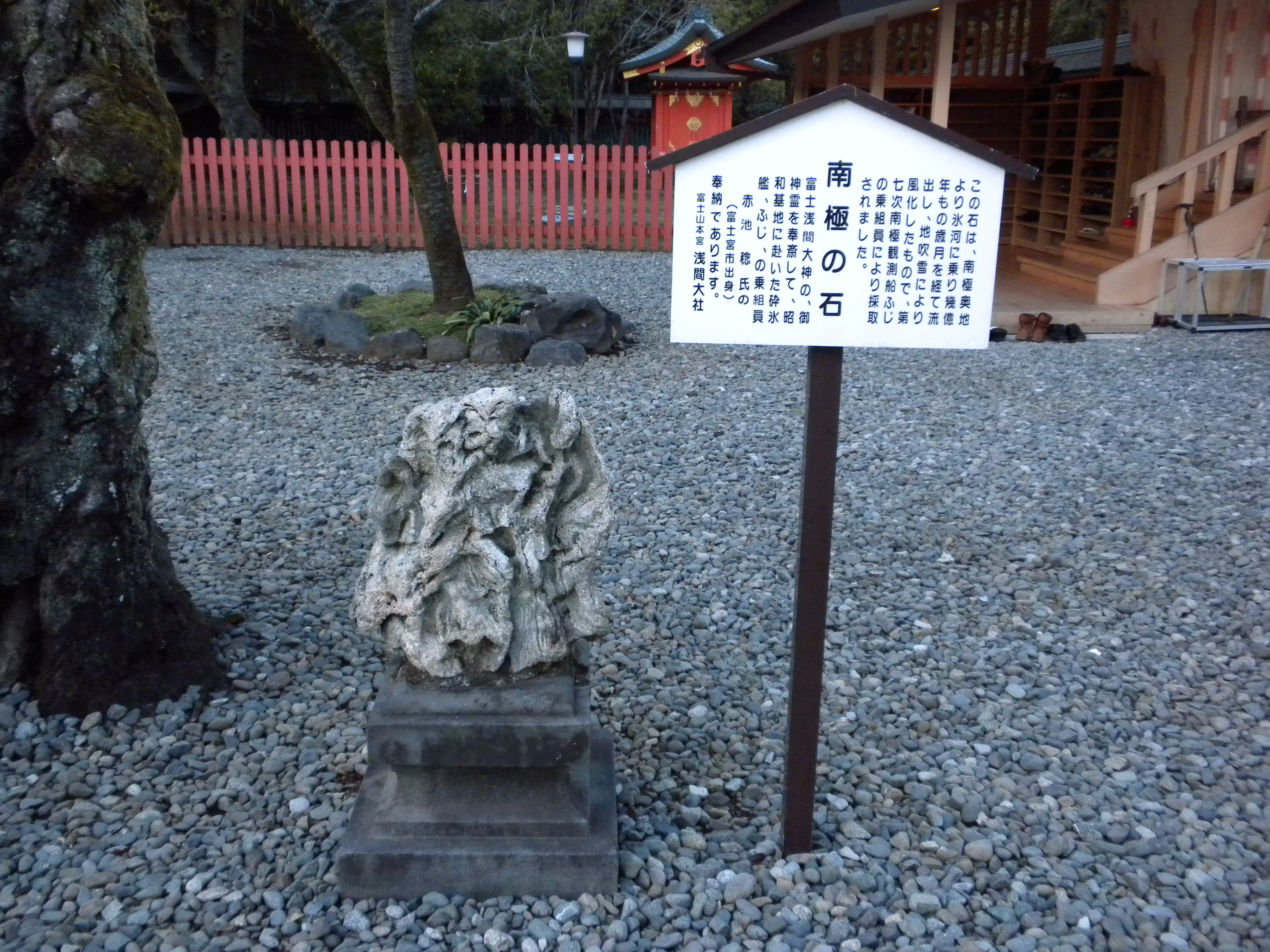 Fujisan Hongū Sengen Taisha Stone